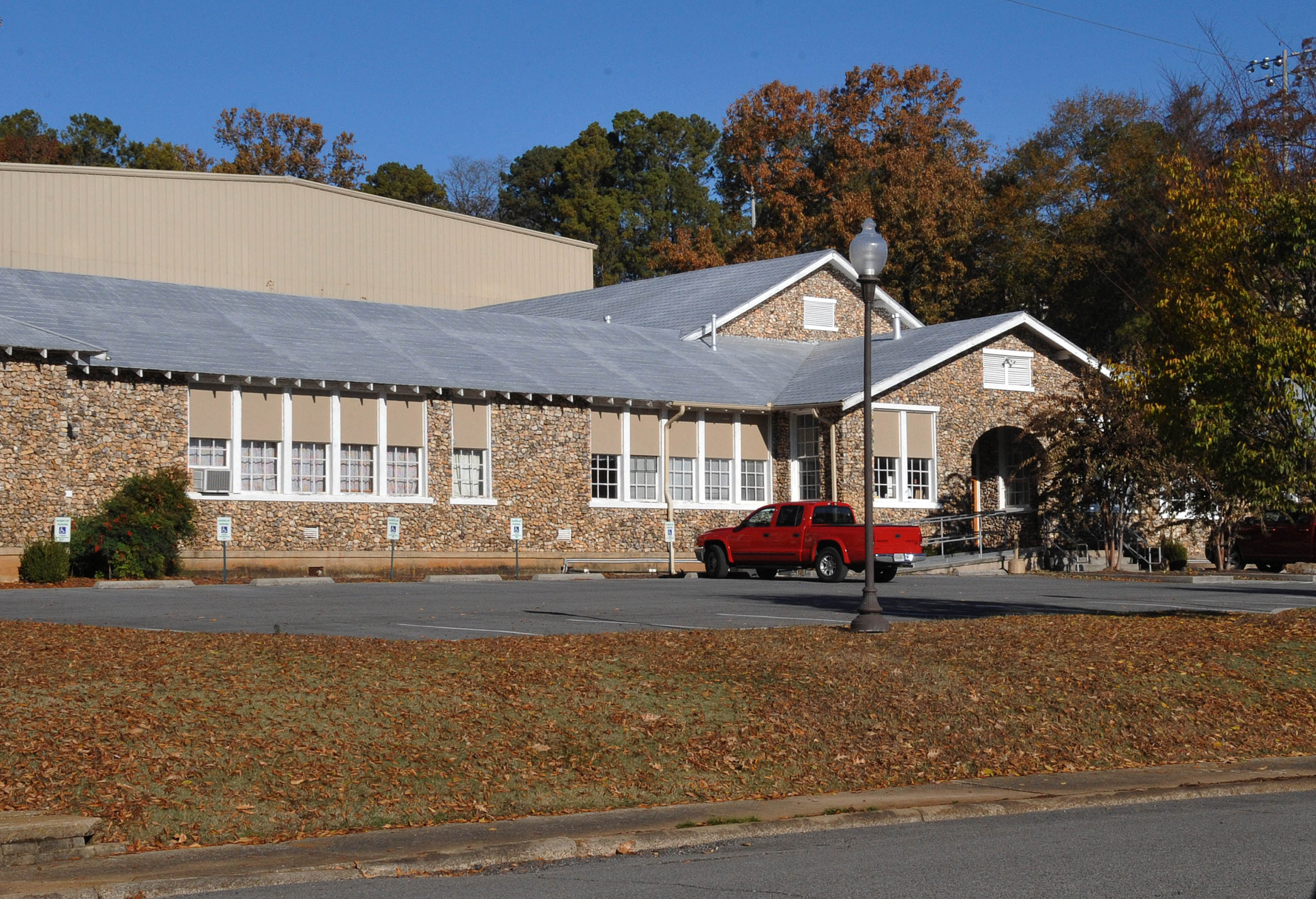 BUILT IN 1926 IN CRAFTSMAN STYLE WITH ROCK FACING; THE BUILDING IS NO LONGER A SCHOOL BUT A COMMUNITY THEATER AND MUSEUM